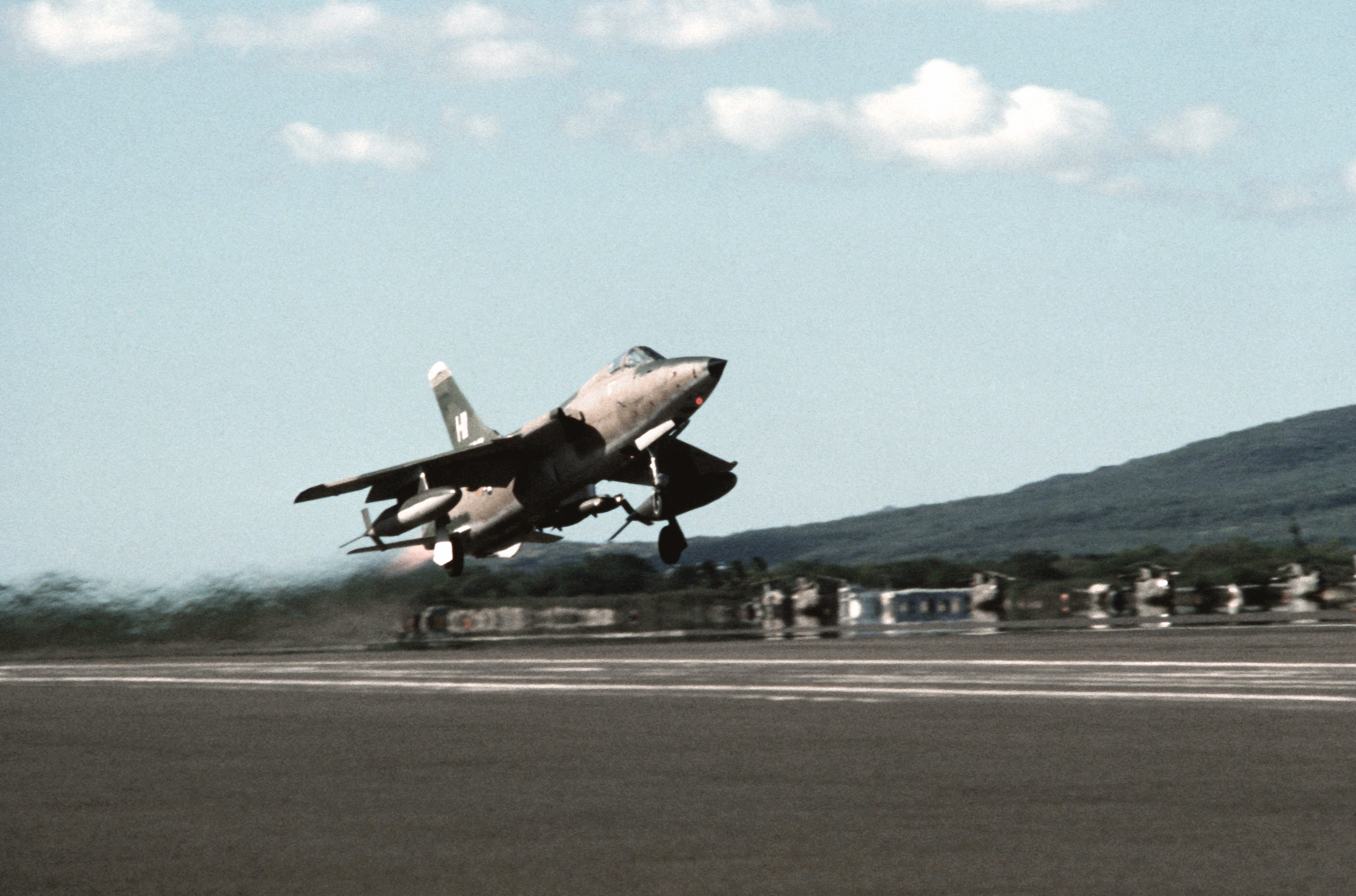 A U.S. Air Force Reserve Republic F-105B Thunderchief from the 466th Tactical Fighter Squadron, 508th Tactical Fighter Group based at Hill Air Force Base, Utah (USA), taking off from Naval Air Station Barbers Point, Hawaii (USA), on 7 April 1978.